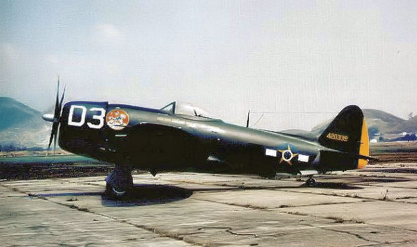 Republic P-47D-30-RE Thunderbolt 44-20339, part of Brazillian contingent to the USAAF 350th Fighter Group. Aircraft hit by blast of own bomb Apr 13, 1945 3 mi W of Spilimbergo near Pordenone, Italy.